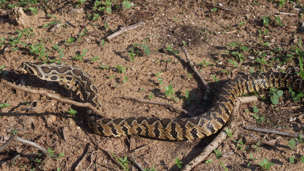 Vipera palaestinae